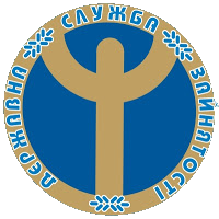 Logo of State Employment Service of Ukraine